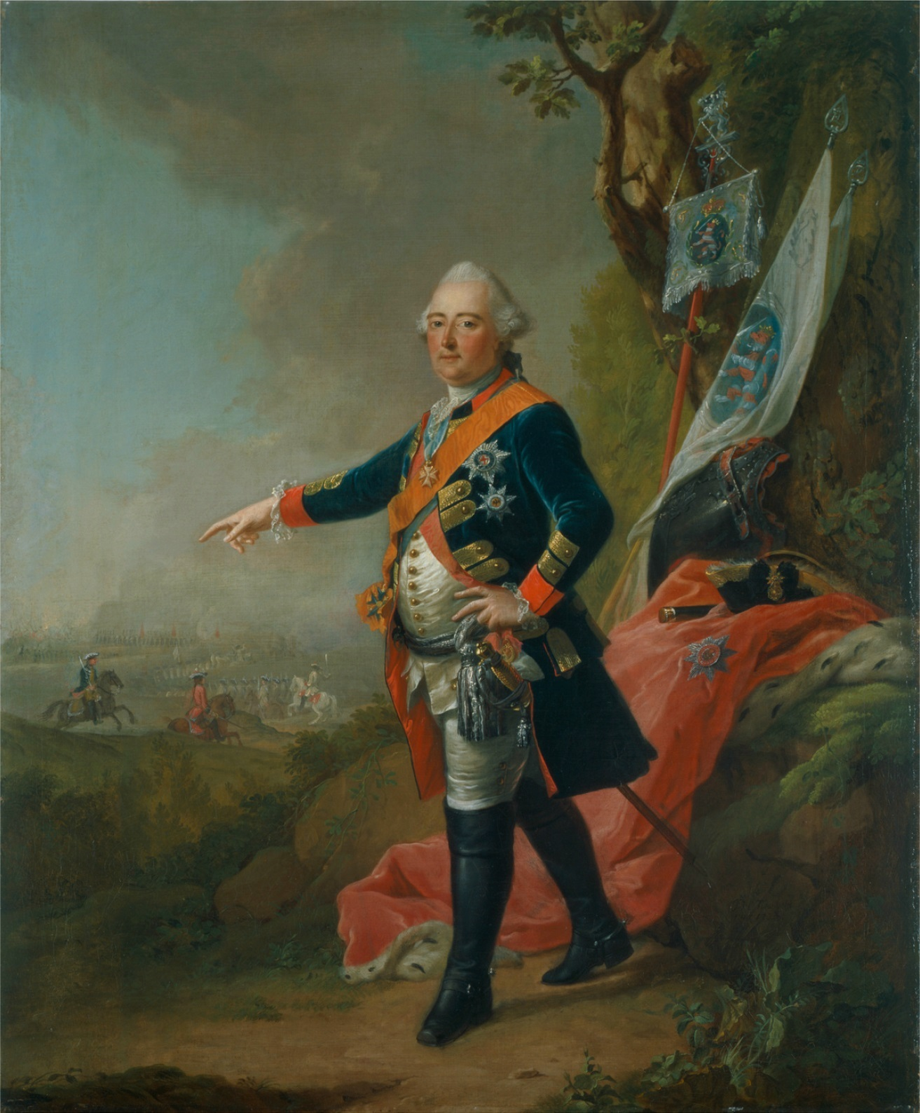 Frederick II, Landgrave of Hesse-Kassel (1720-1785) and Prussian General, in officers' uniform of the 45th Prussian infantry-regiment